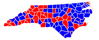 County results map of 1998 senate election in NC